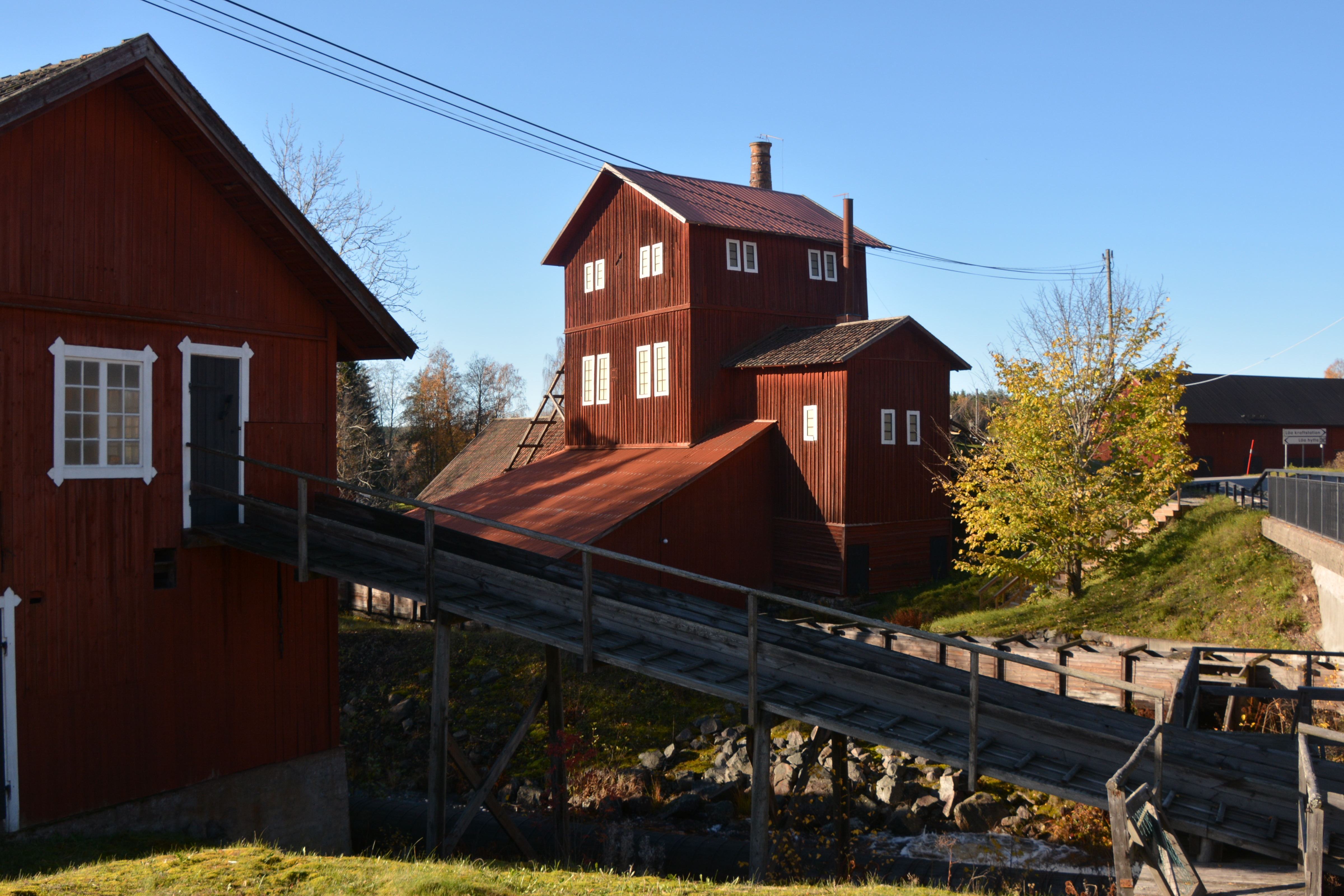 Löa hytta